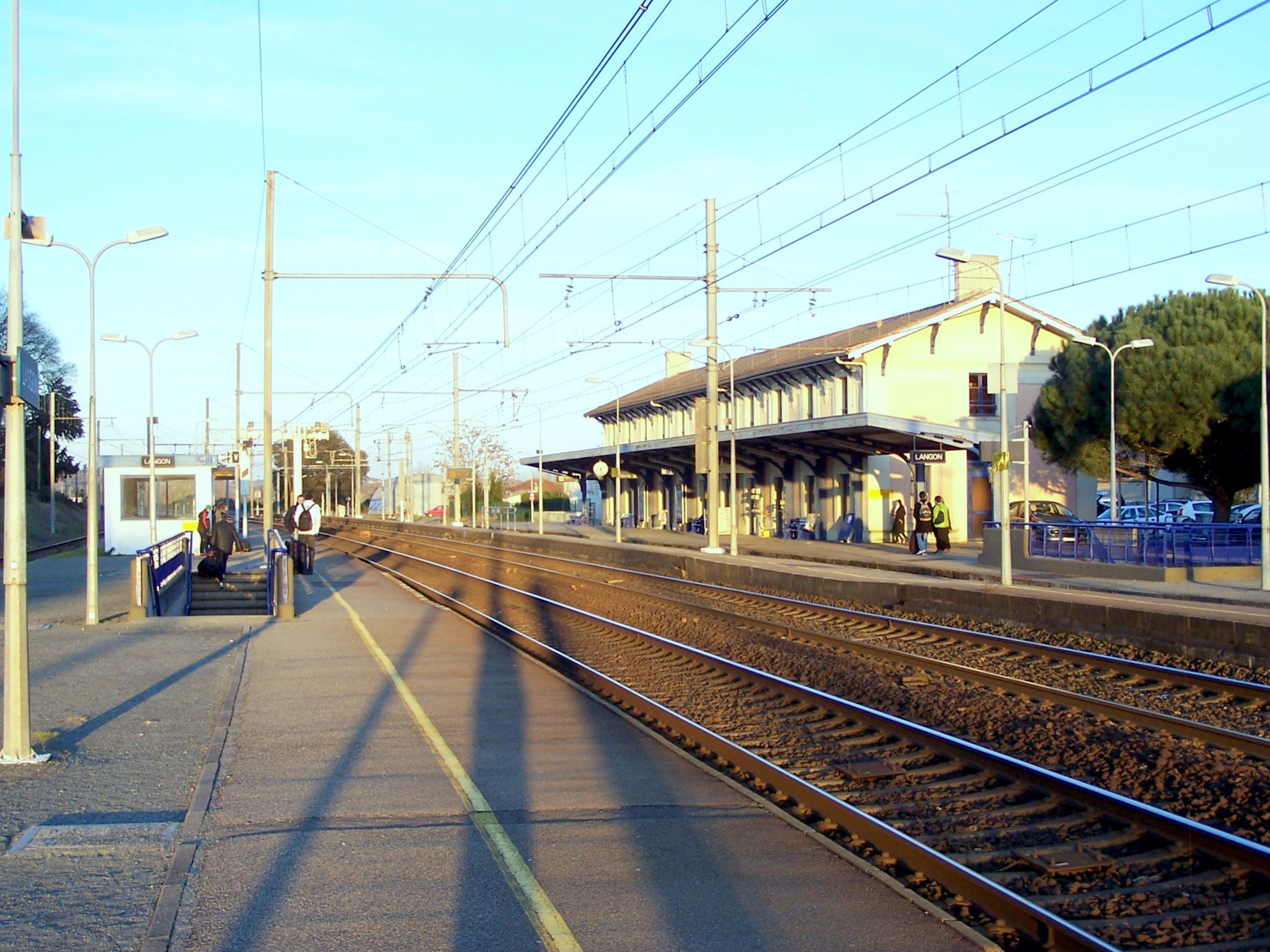 Train station of Langon (Gironde, France)